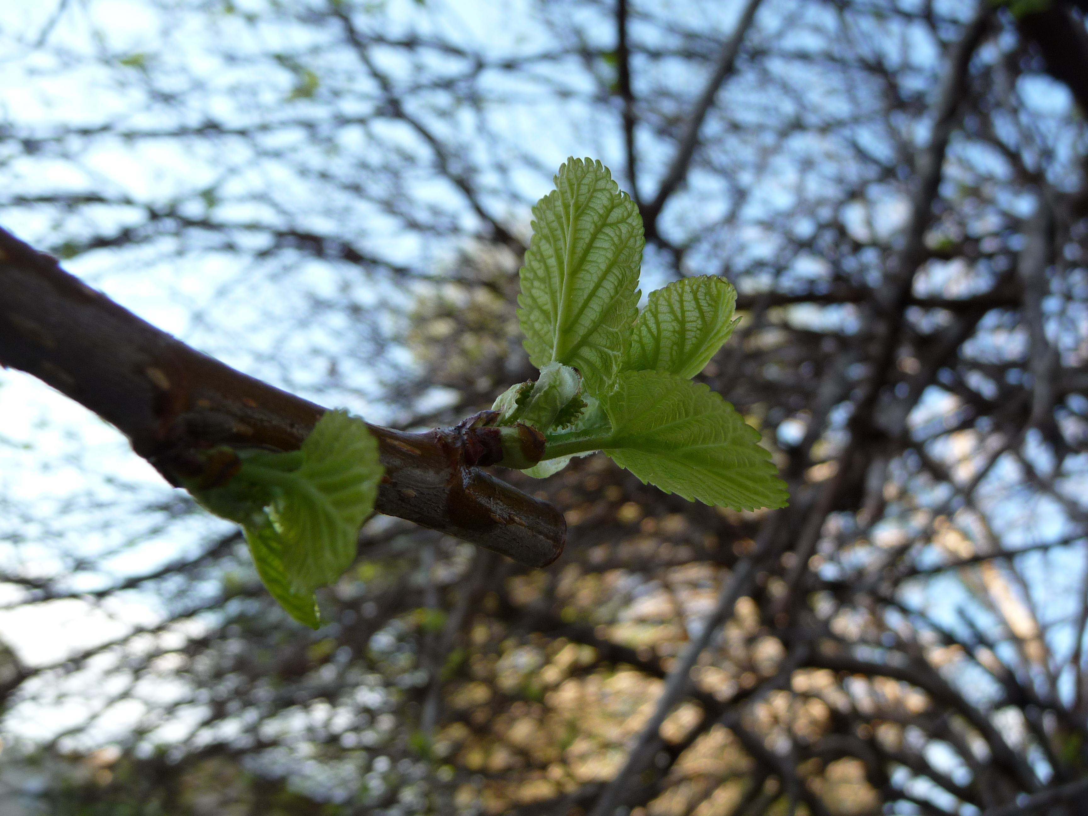 Beit Oren is a kibbutz in northern Israel. It falls under the jurisdiction of Hof HaCarmel Regional Council.